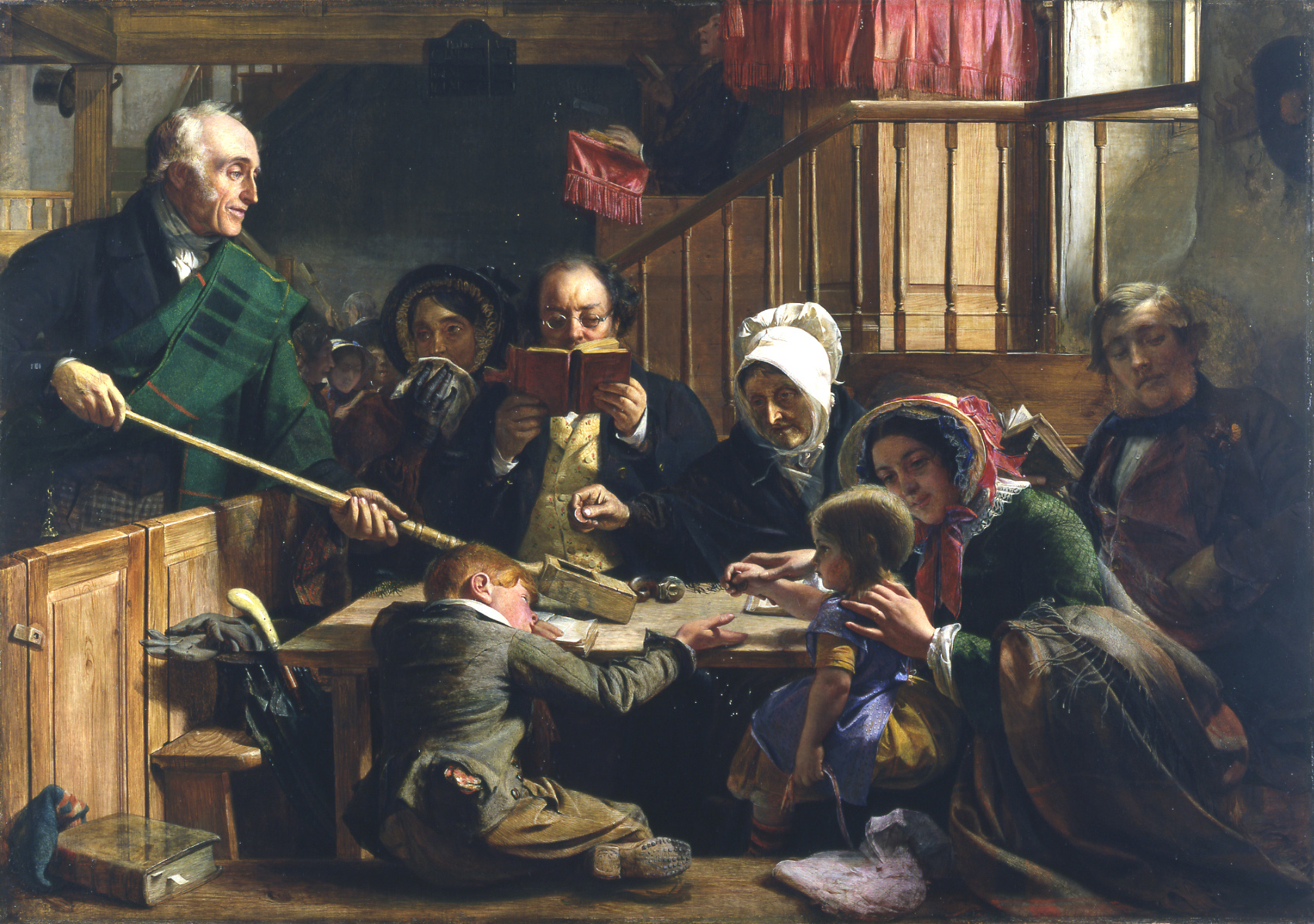 The elder in a tartan plaid, left, passing the collecting box to five adults and two children in a pew; in the background the minister in his pulpit with the congregation singing below.